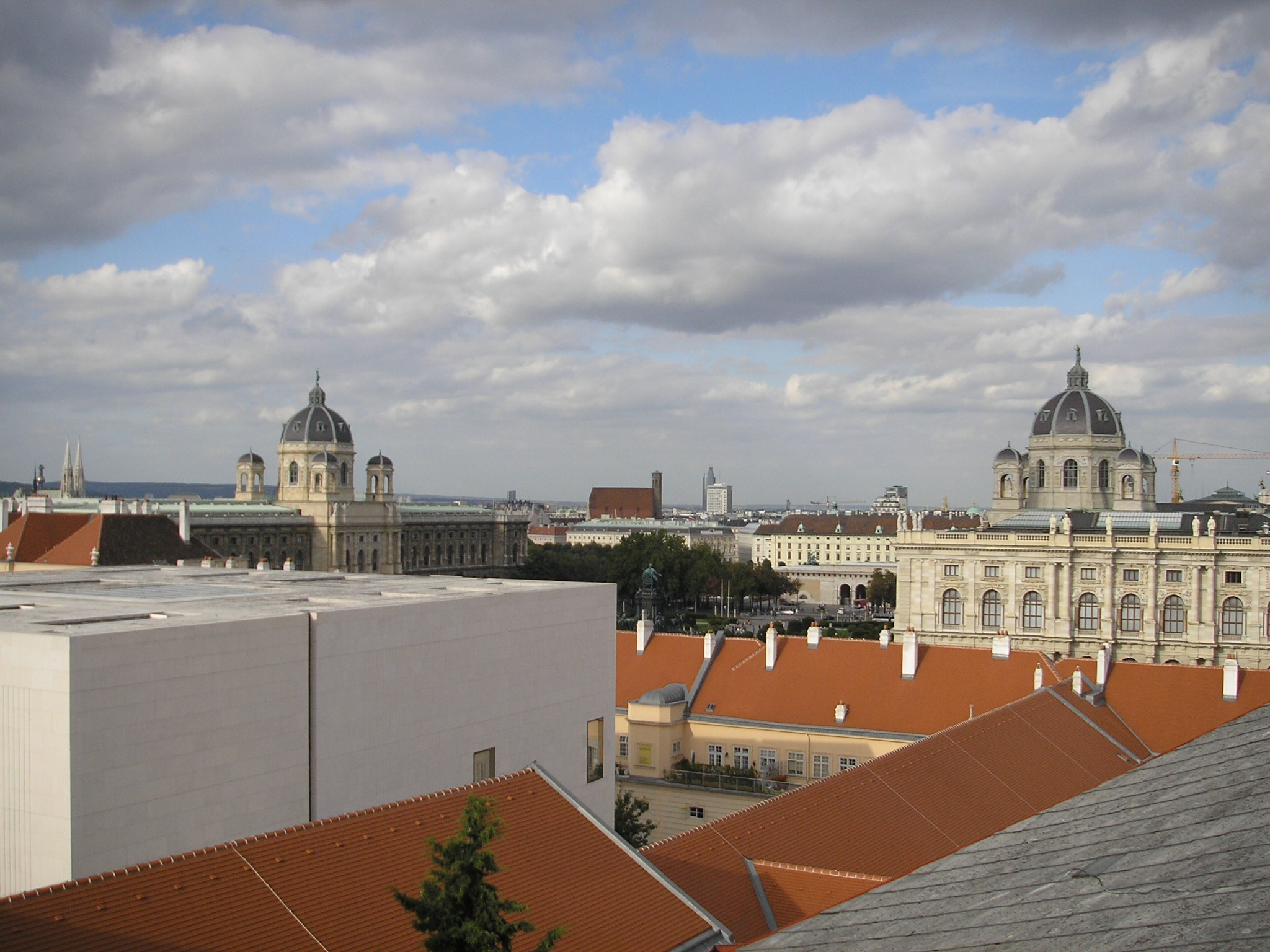 Austria, Vienna, Leopold Museum